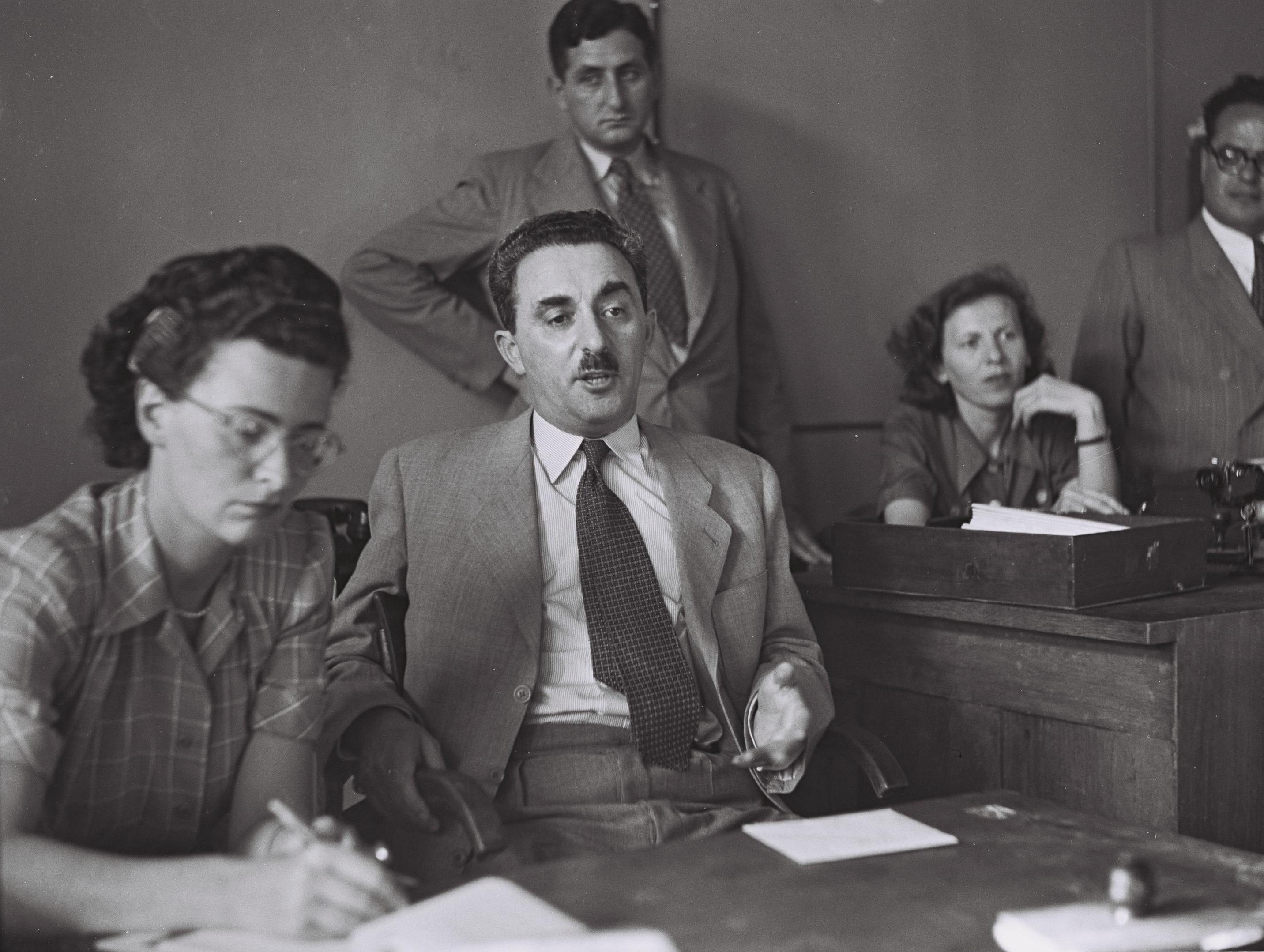 Moshe Sharett holding a press conference in Tel Aviv with his aid Gideon Rafael standing behind.